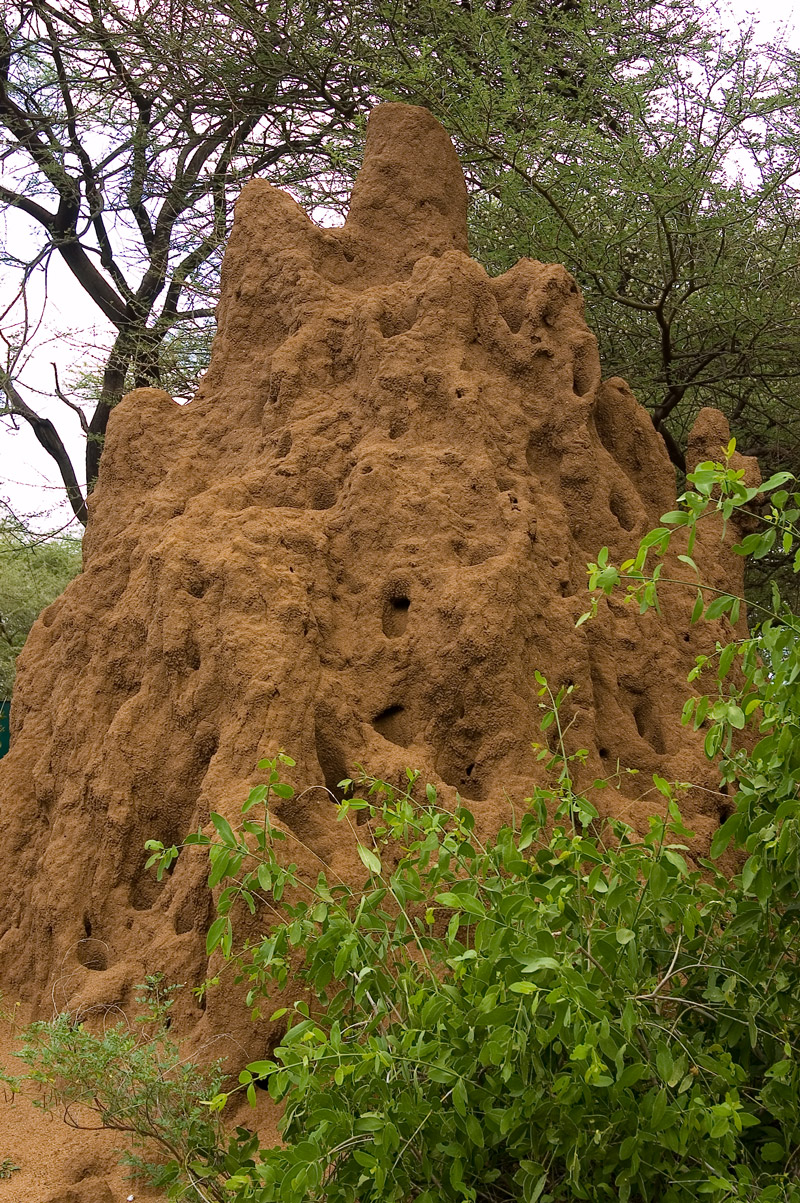 Termite Mound in Tanzania